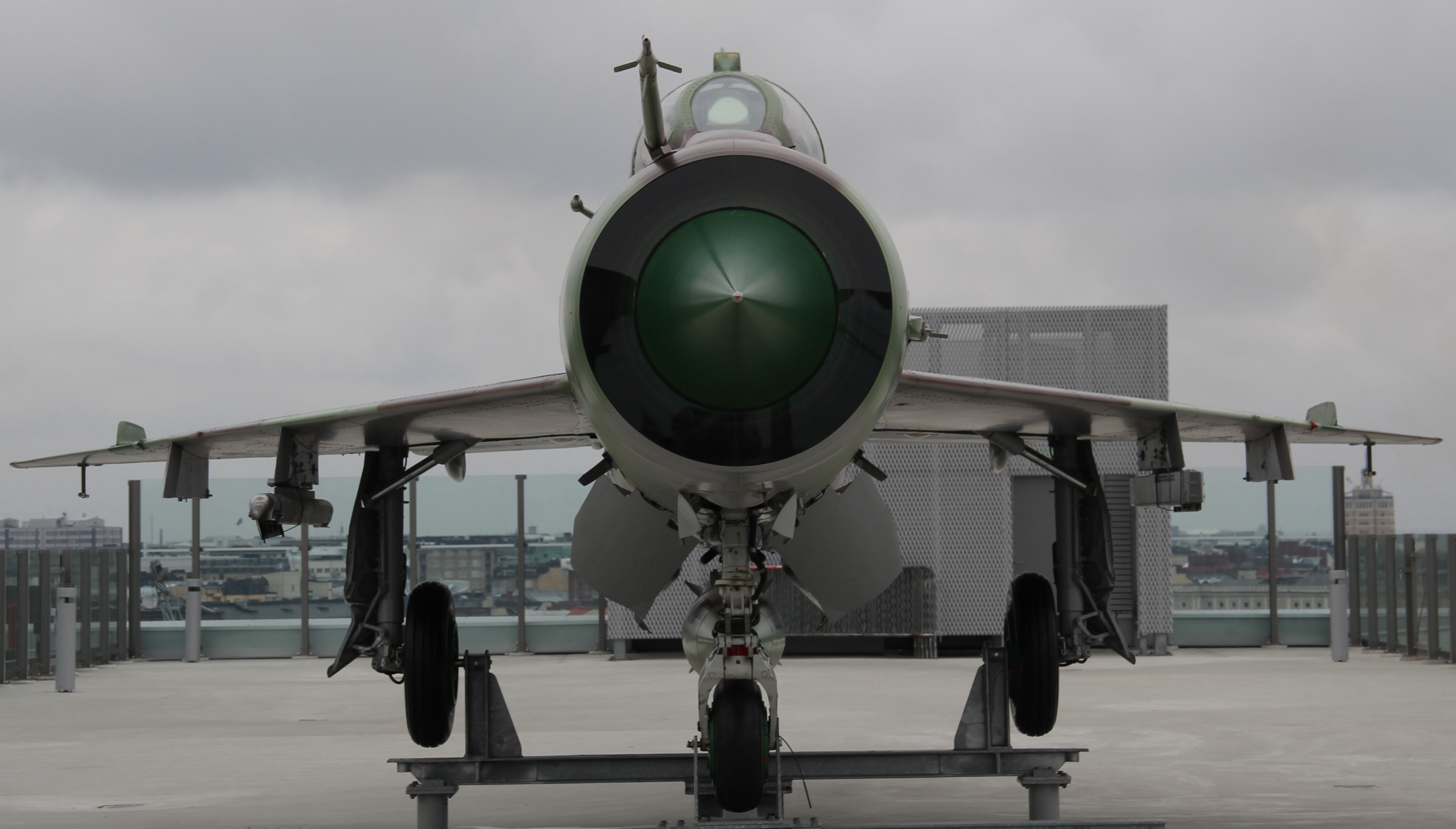 A restored MiG-21BIS jet fighter aircraft (MG-130) on display on the roof of the building in Jätkäsaari, Helsinki, Finland. This MiG is owned by the Finnish Air Force, it's last flight was on March 7, 1998.